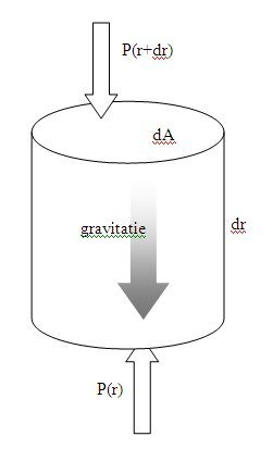 Diagram representing the principle of hydrostatic equilibrium